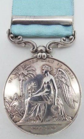 British / Honourable East Inia Company campaign medal for campaigns between 1799 - 1826.